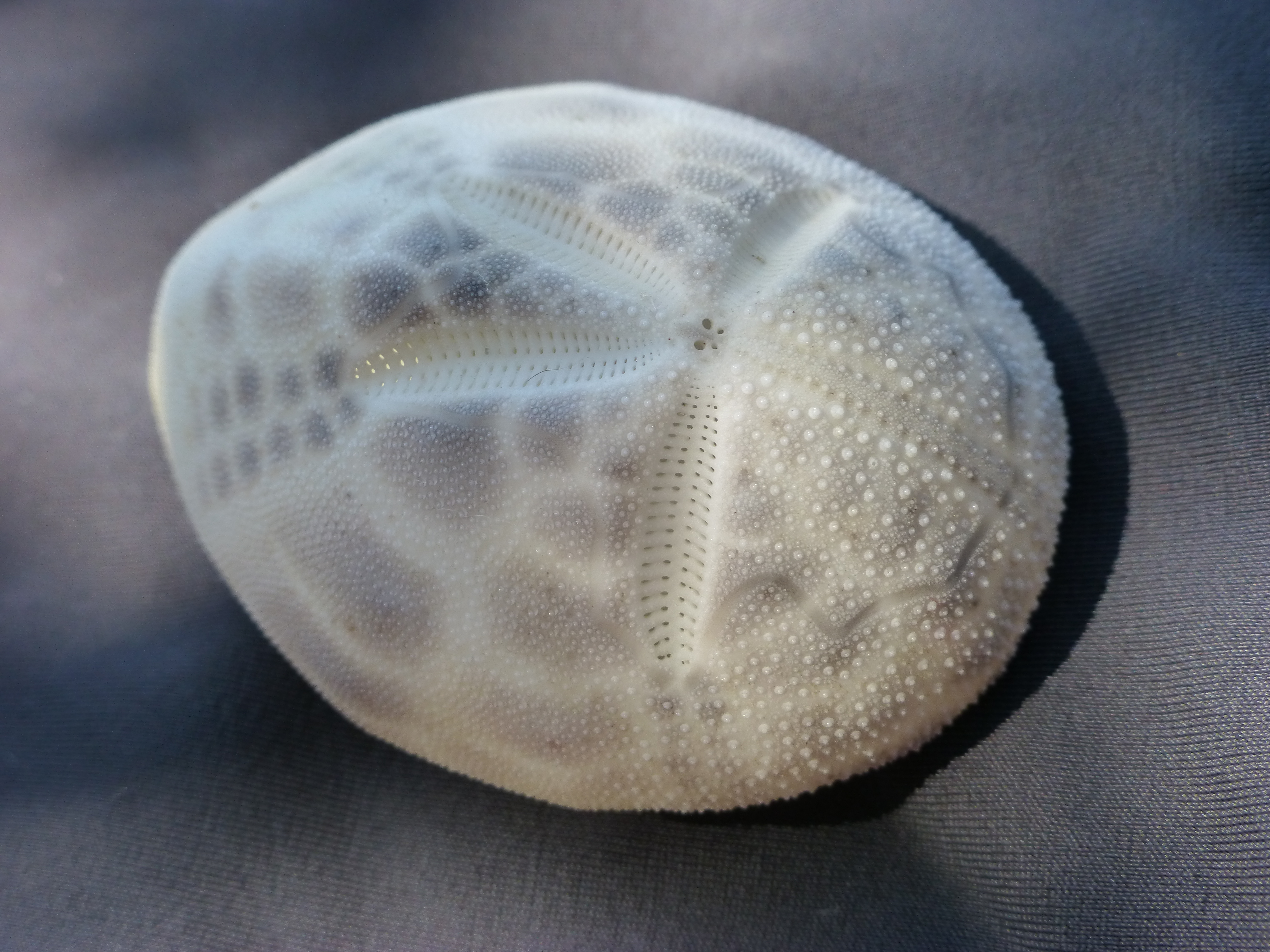 Dead heart urchin shell. Spatangoida, Söğüt, Marmaris, Turkey. Family Brissidae??